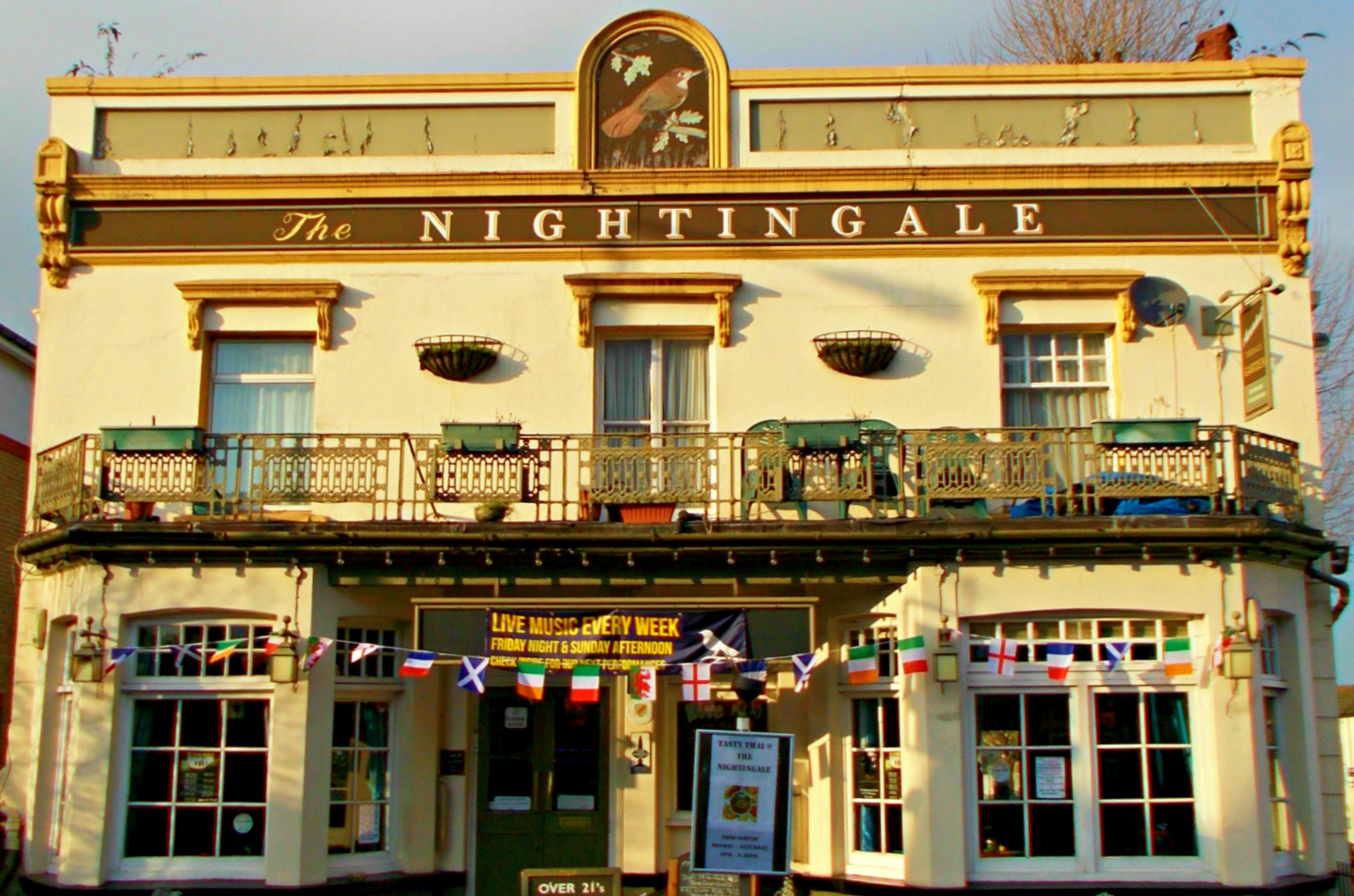 The Nightingale pub, Carshalton Rd, Sutton, London. The pub was built in 1854 on the corner of Lind Road and was named the Jenny Lind, after the famous Swedish opera singer Johanna Maria Lind, who was visiting friends in the area in 1847 and enchanted locals with her singing. It has recently been renamed the Nightingale, also after the singer, who was known as the Swedish Nightingale. Sutton was until 1965 in Surrey, but became part of Greater London thereafter. It is ten miles from central London.